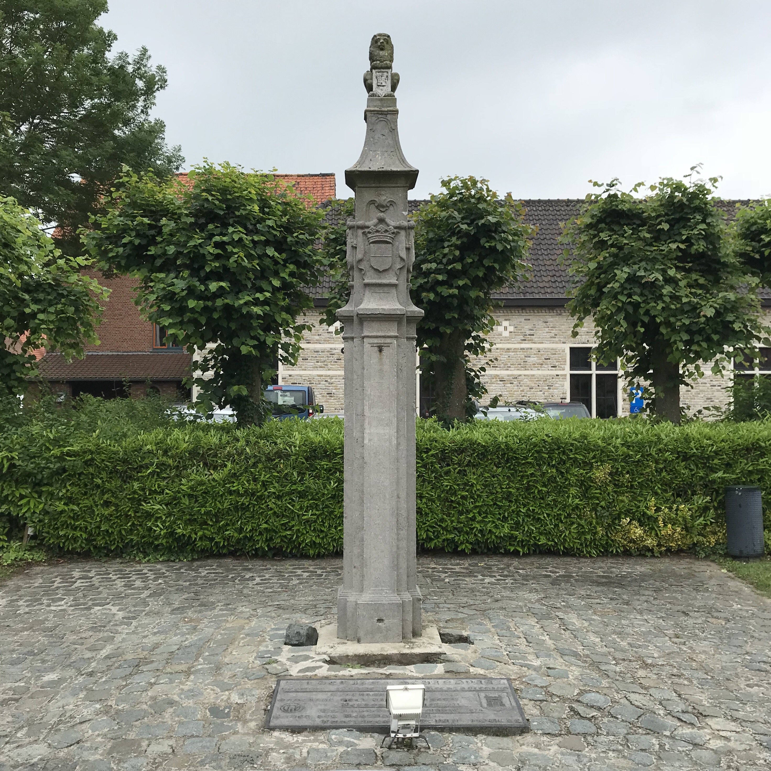 Maldegem (Middelburg), Belgium: the former pillory